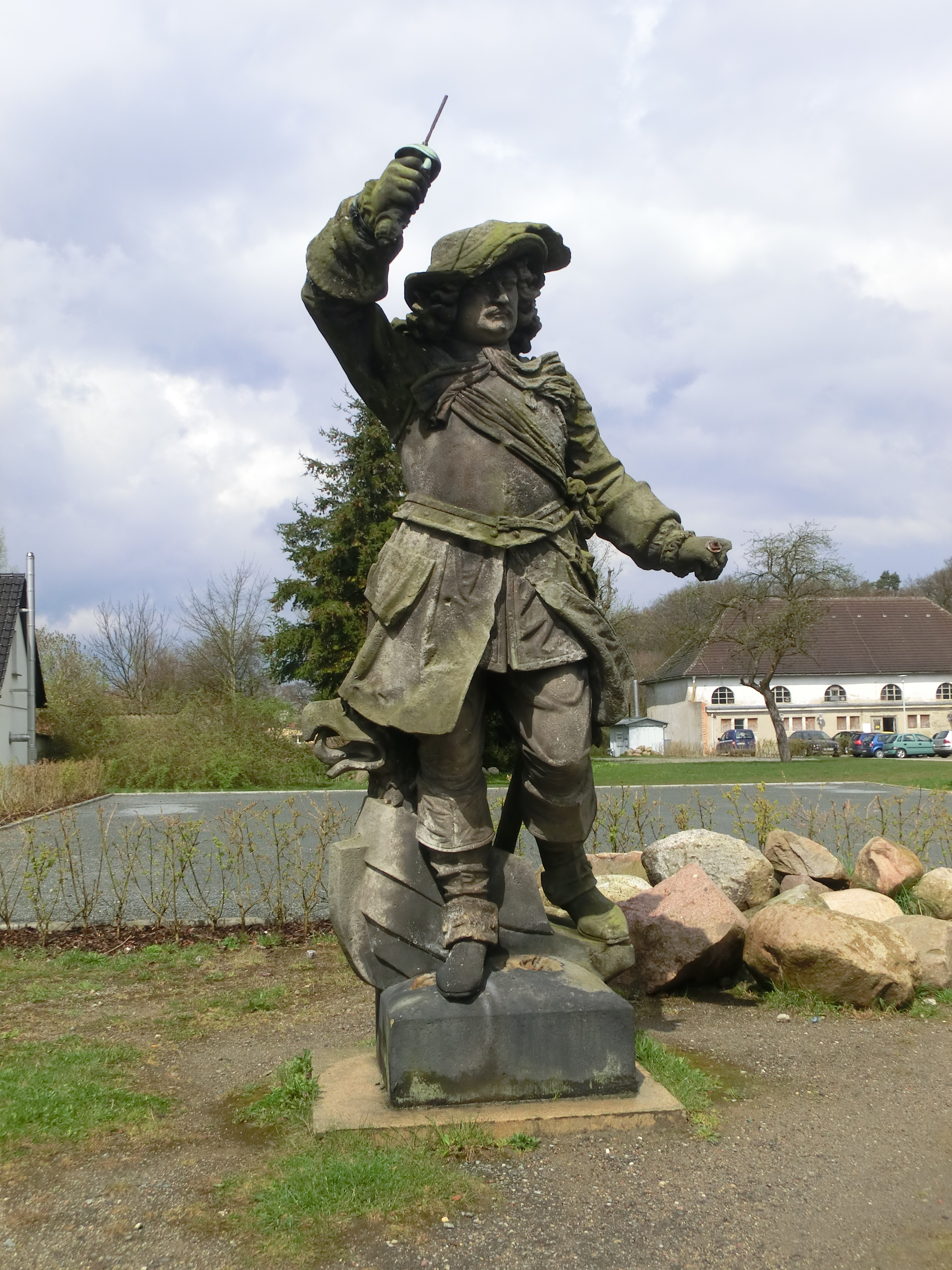 Prussia Column Neukamp, Friedrich Wilhelm (Elector of Brandenburg)